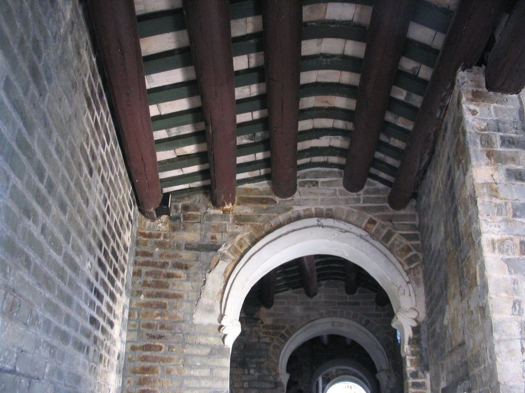 Kun Ting Study Hall, Ping Shan Heritage Trail. 中文（香港）: 屏山文物徑・覲廷書室。